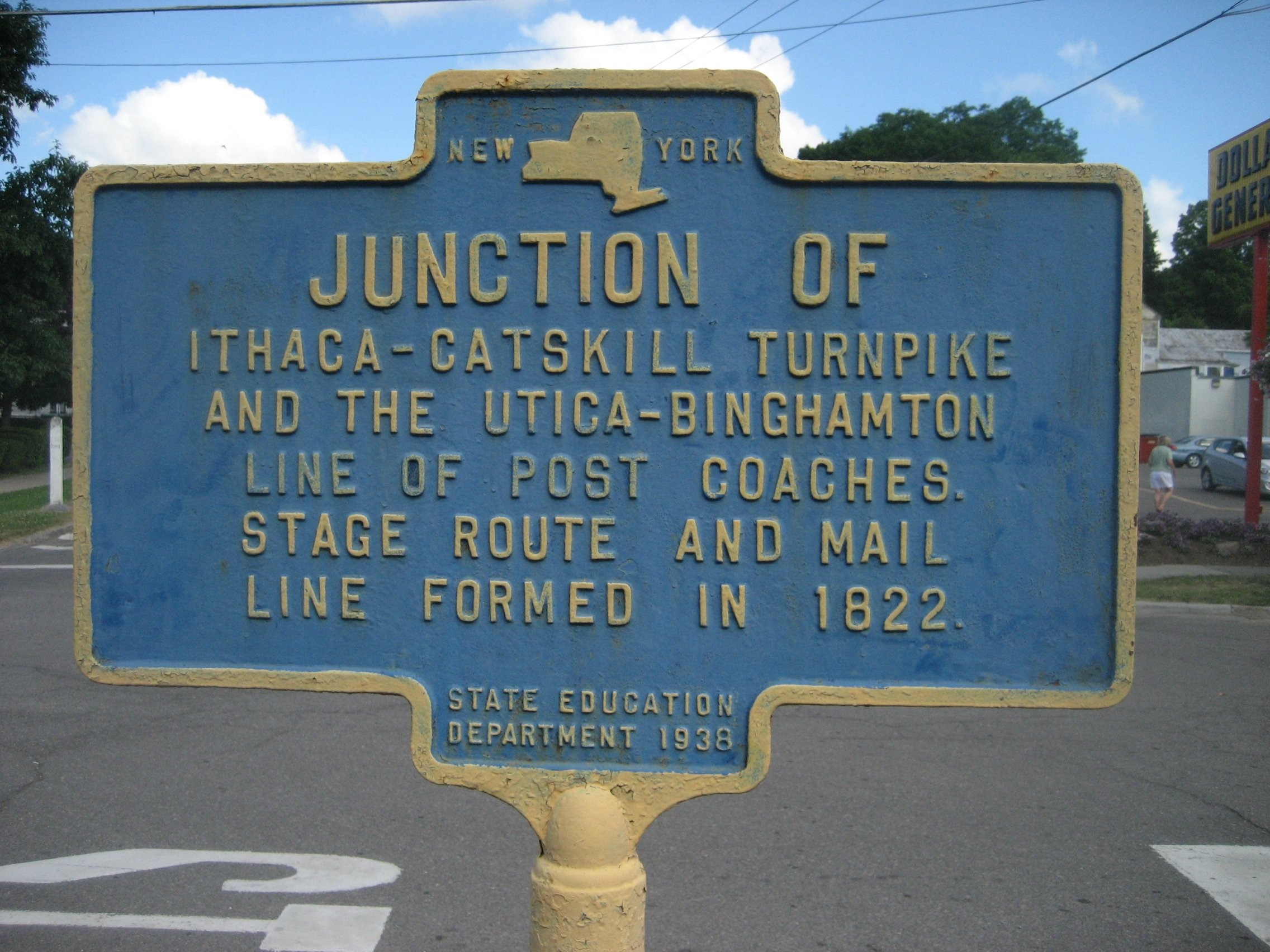 Historic marker of the Junction of the Ithaca Catskill Turnpike and the Utica - Binghamton Line of the post coaches, Stage route and mail line formed in 1822.